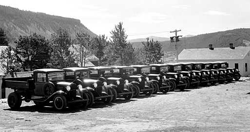 Twelve new Chevrolet trucks for the CCC (Civilian Conservation Corps) delivered at Marnworth.